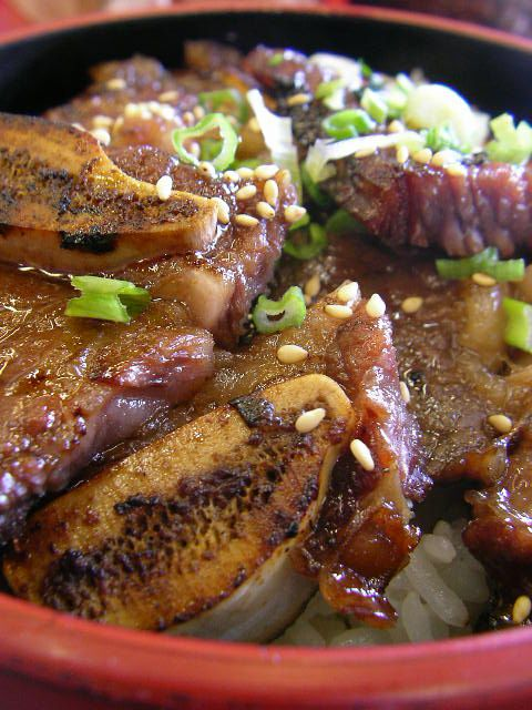 Sogalbi (소갈비 beef galbi).